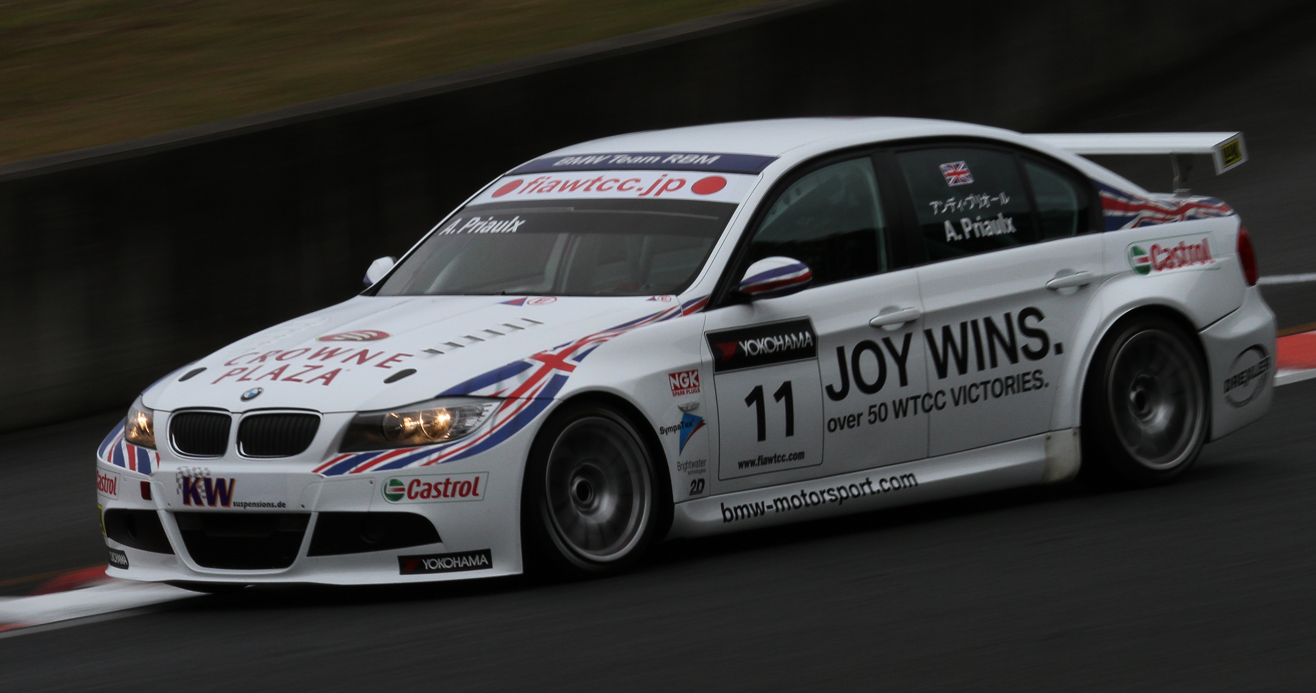 World Touring Car Championship 2010 Race of Japan: Andy Priaulx (BMW Team RBM) during the 1st free practice session on Saturday.